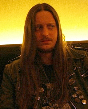 Fenriz of Darkthrone.